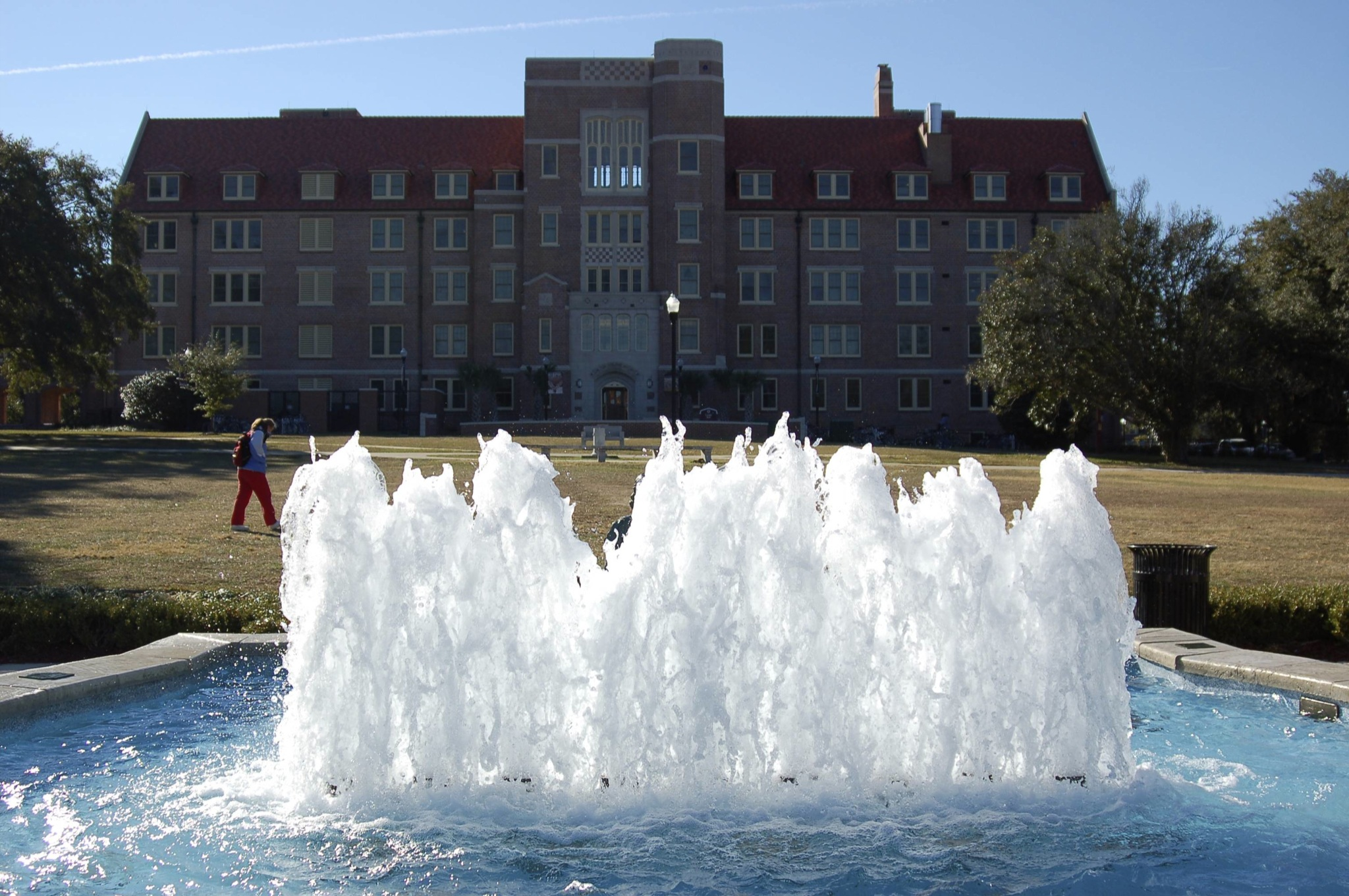 Fountain on Landis Green, Florida State University, Tallahassee, Florida